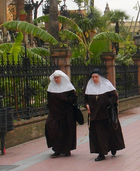 Sister Societatis Sororum a Cruce in Sevilla, Spain